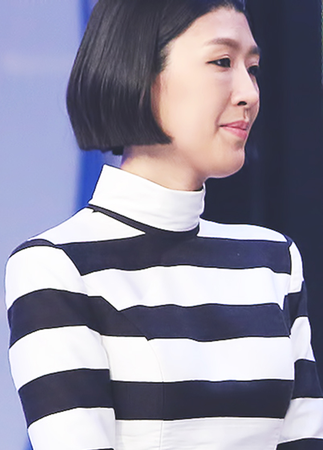 Hong Jin-kyung during at KBS Entertainment Awards on December 24, 2016.